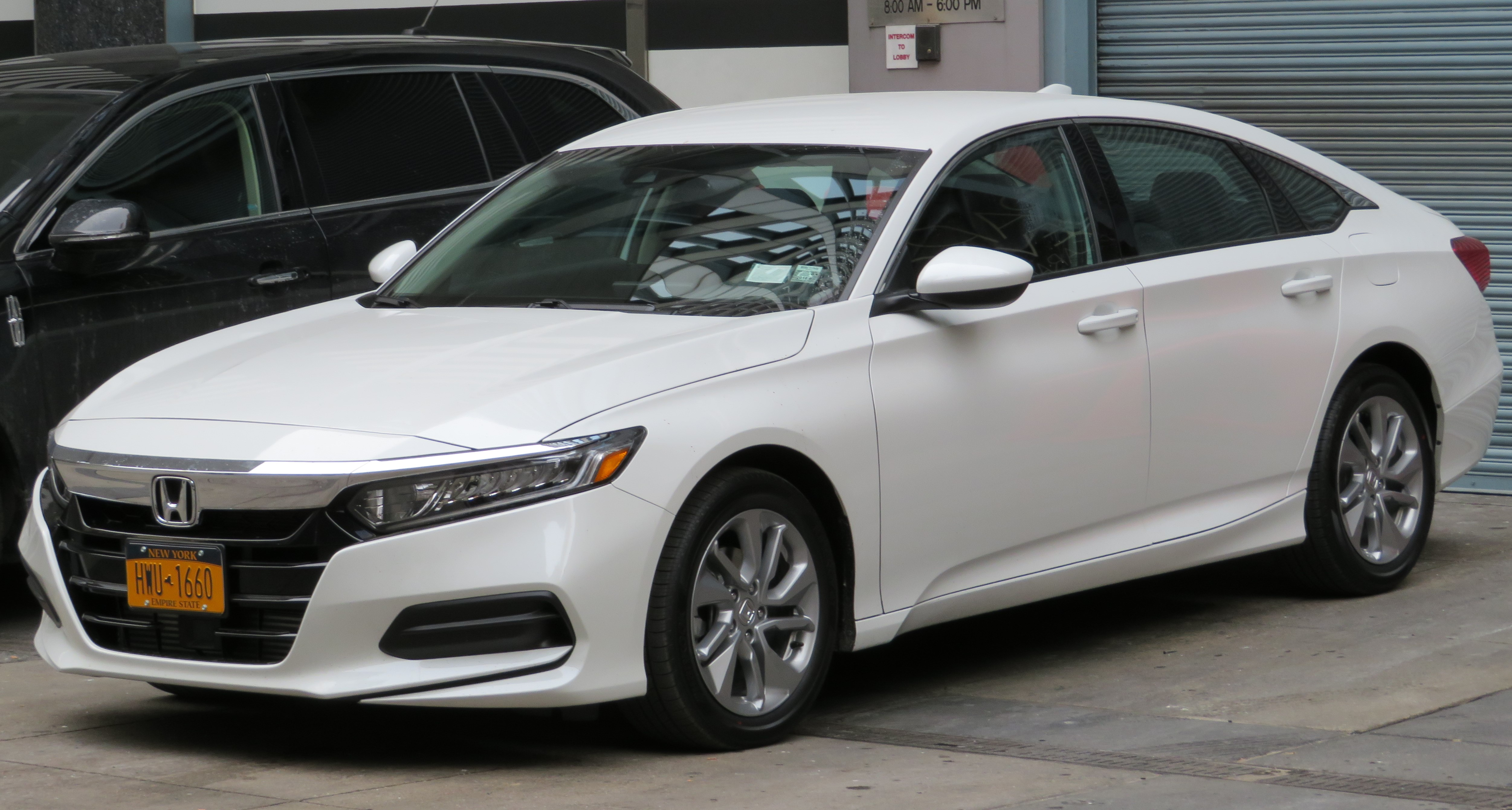 Spotted in Manhattan, New York.